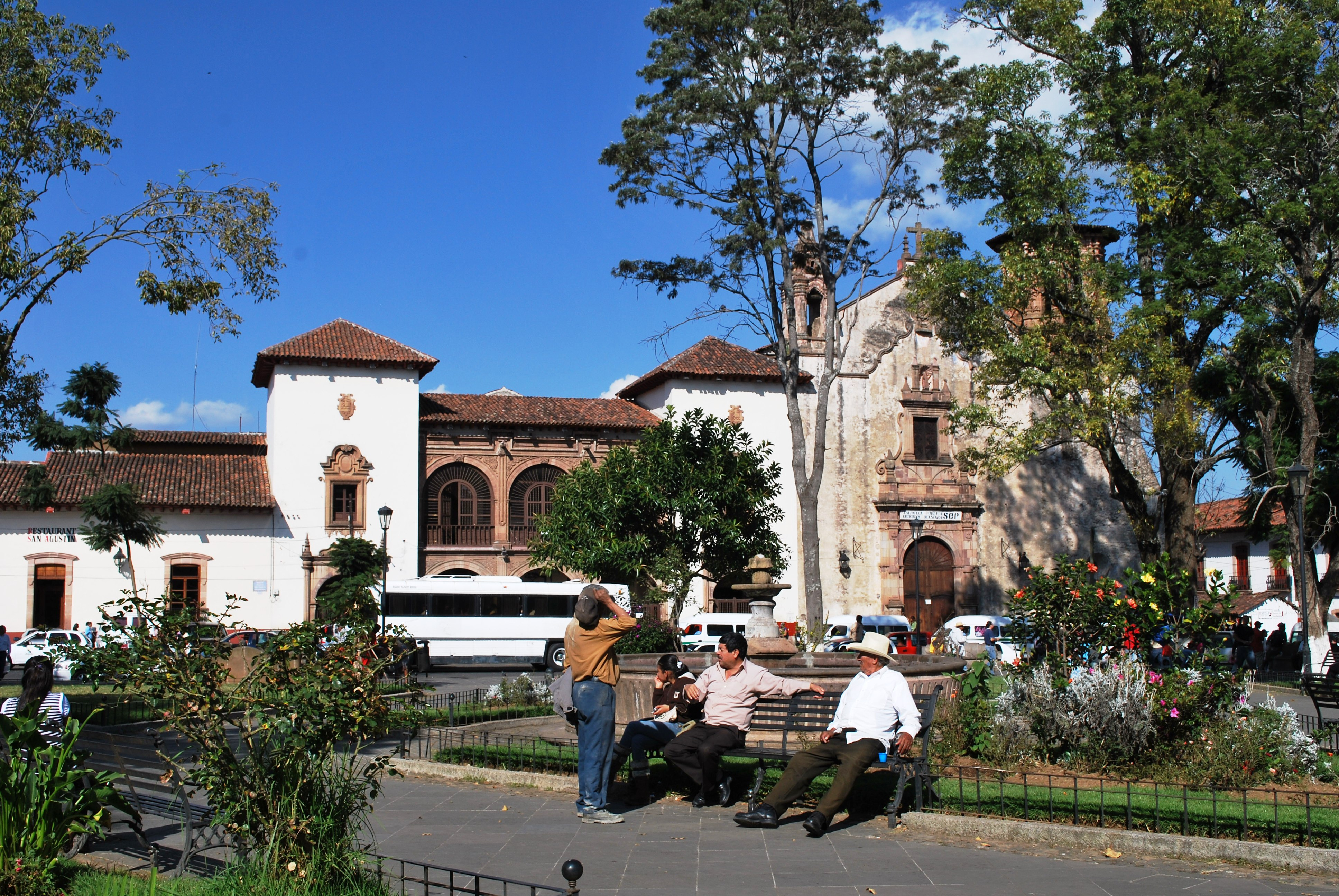 Ex monastery of San Agustin, now a library in Patzcuaro, Michoacan